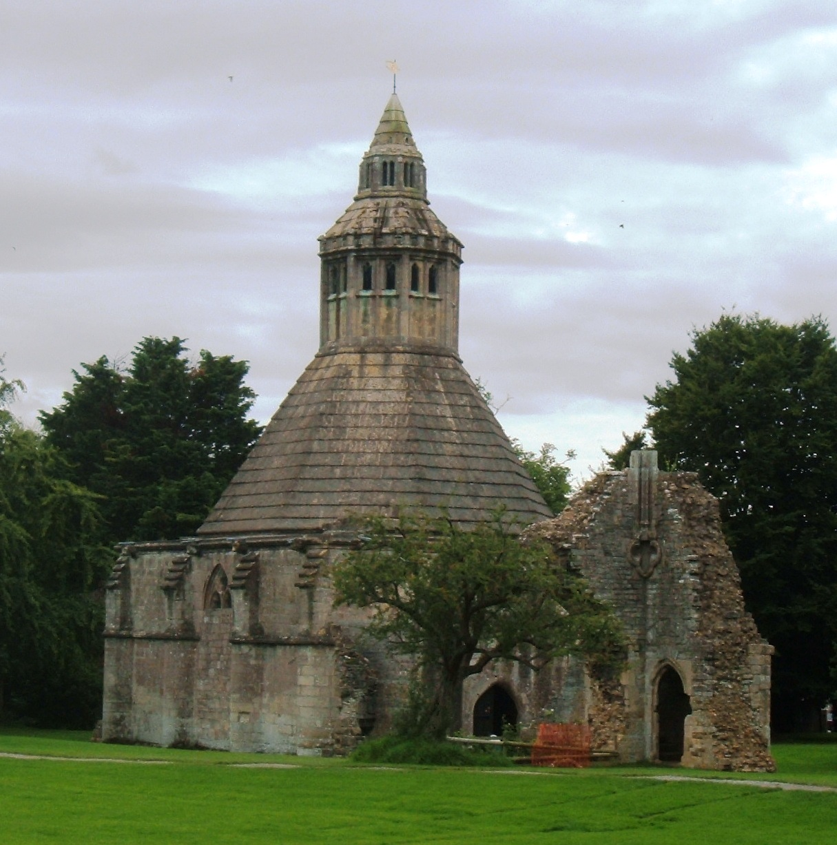 Abbots Kitchen at Glastonbury Abbey